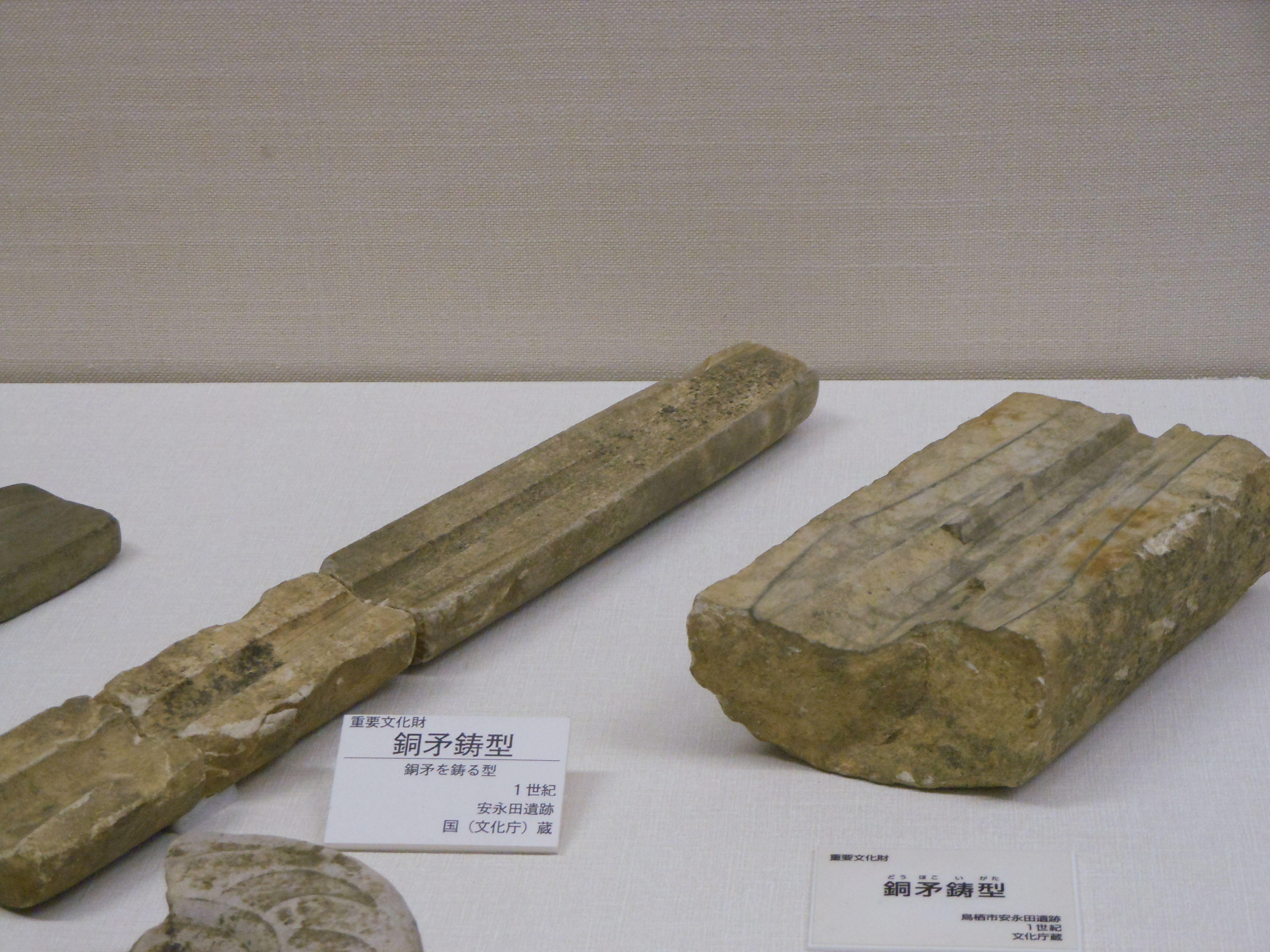 Templates of bronze sword in 1st century, excavated in Yasunagata site, Tosu city, Saga, Japan. It collected by Agency for Cultural Affairs of Japan, displayed in Saga Prefectural Museum.